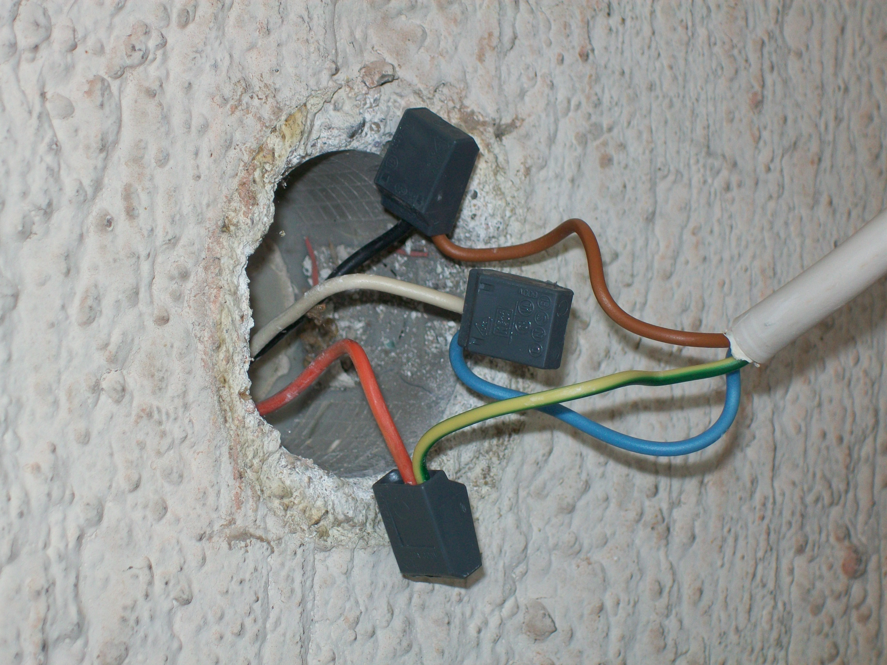 A cable with old wireisolation was extended with a new cable (and new wirecolours).